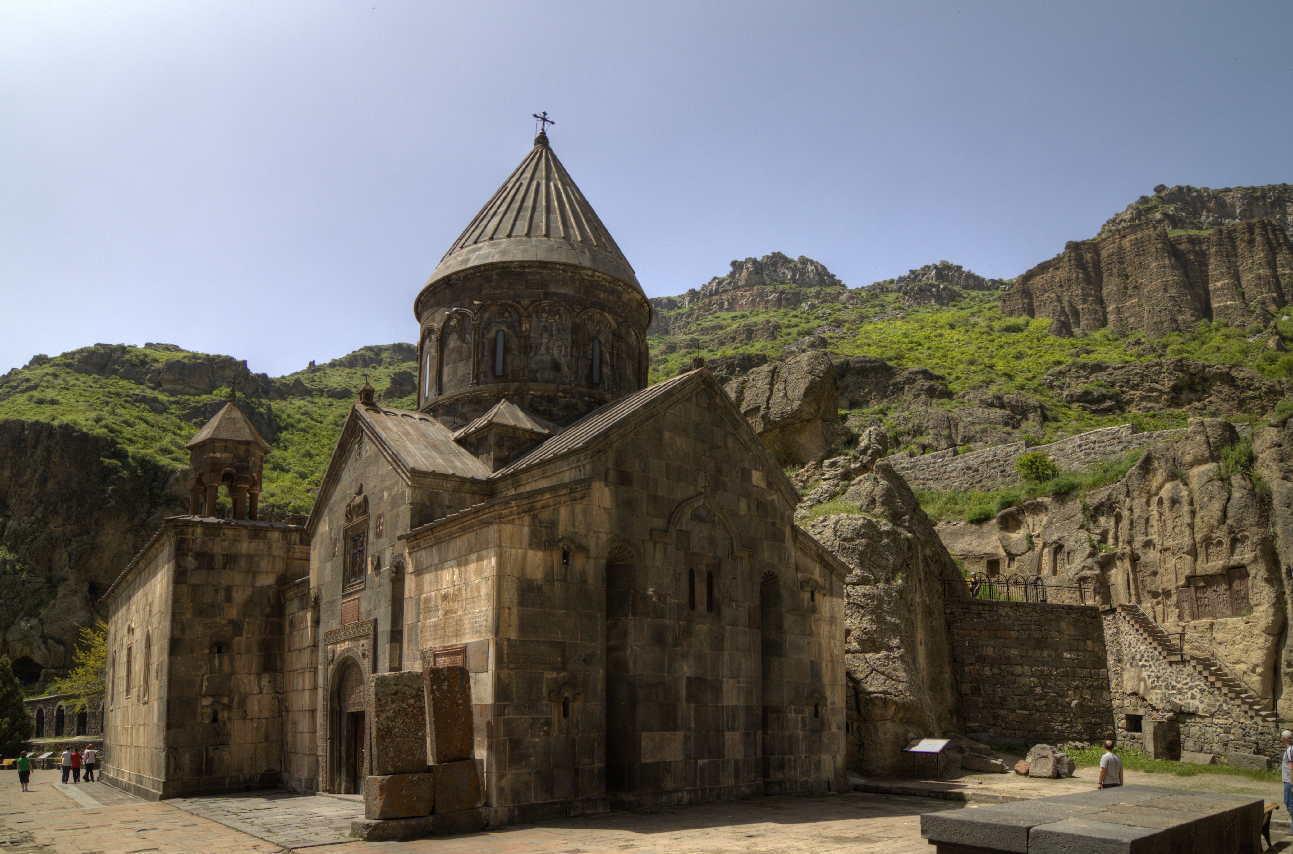 Wide view of Geghard monastery from within the monastic walls.